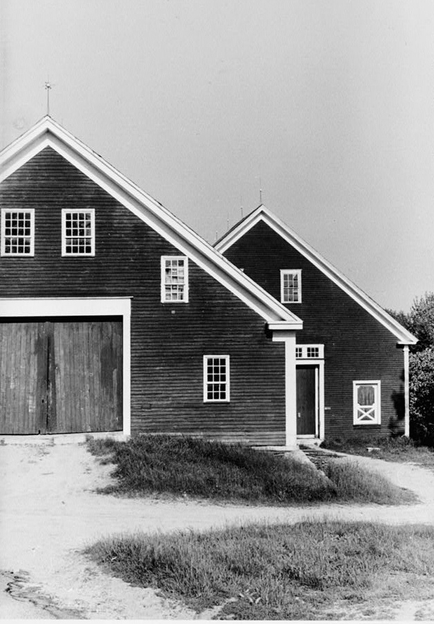 Sabbathday Lake Village, Cumberland County, ME barns on NRHP